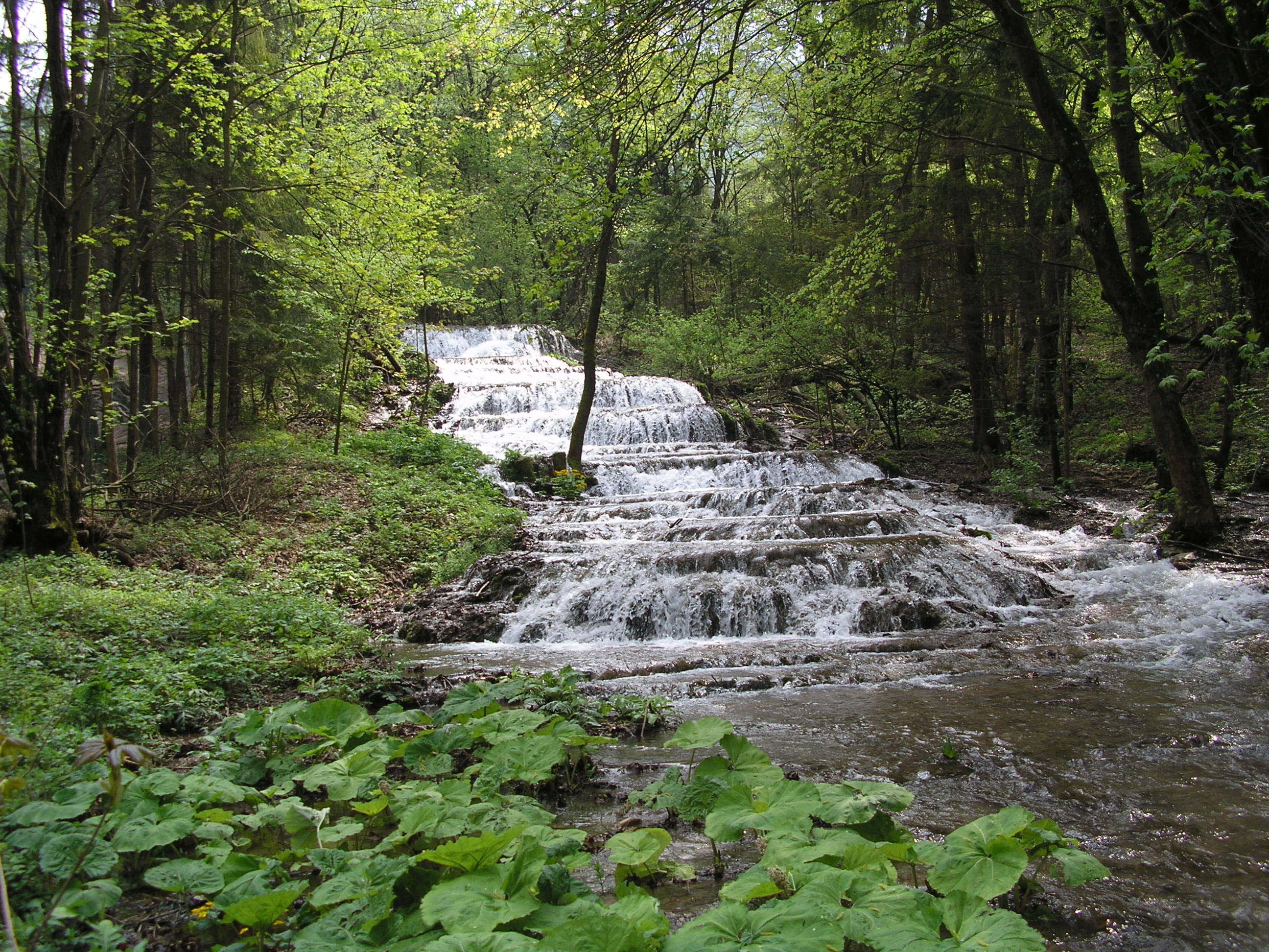 waterfall "Fátyol vízesés" (veil) in Hungary, Europe.